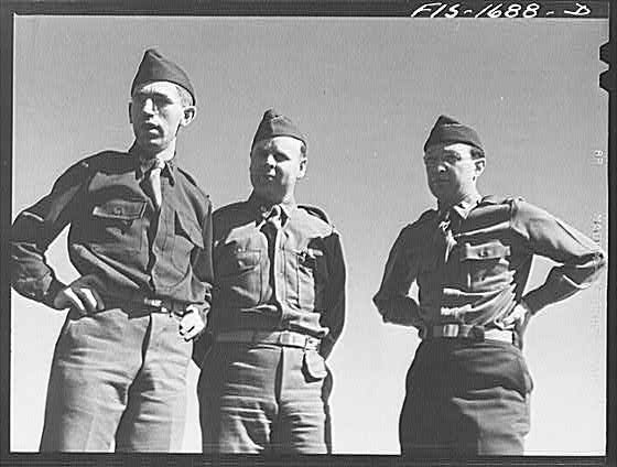 Chaplain Fred W. Thissen, Catholic (left), Chaplain Ernest Pine, Protestant (center), and Chaplain Jacob Rothschild, Jewish (right), students at the U.S. Army chaplain school. Fort Benjamin Harrison, Indiana.